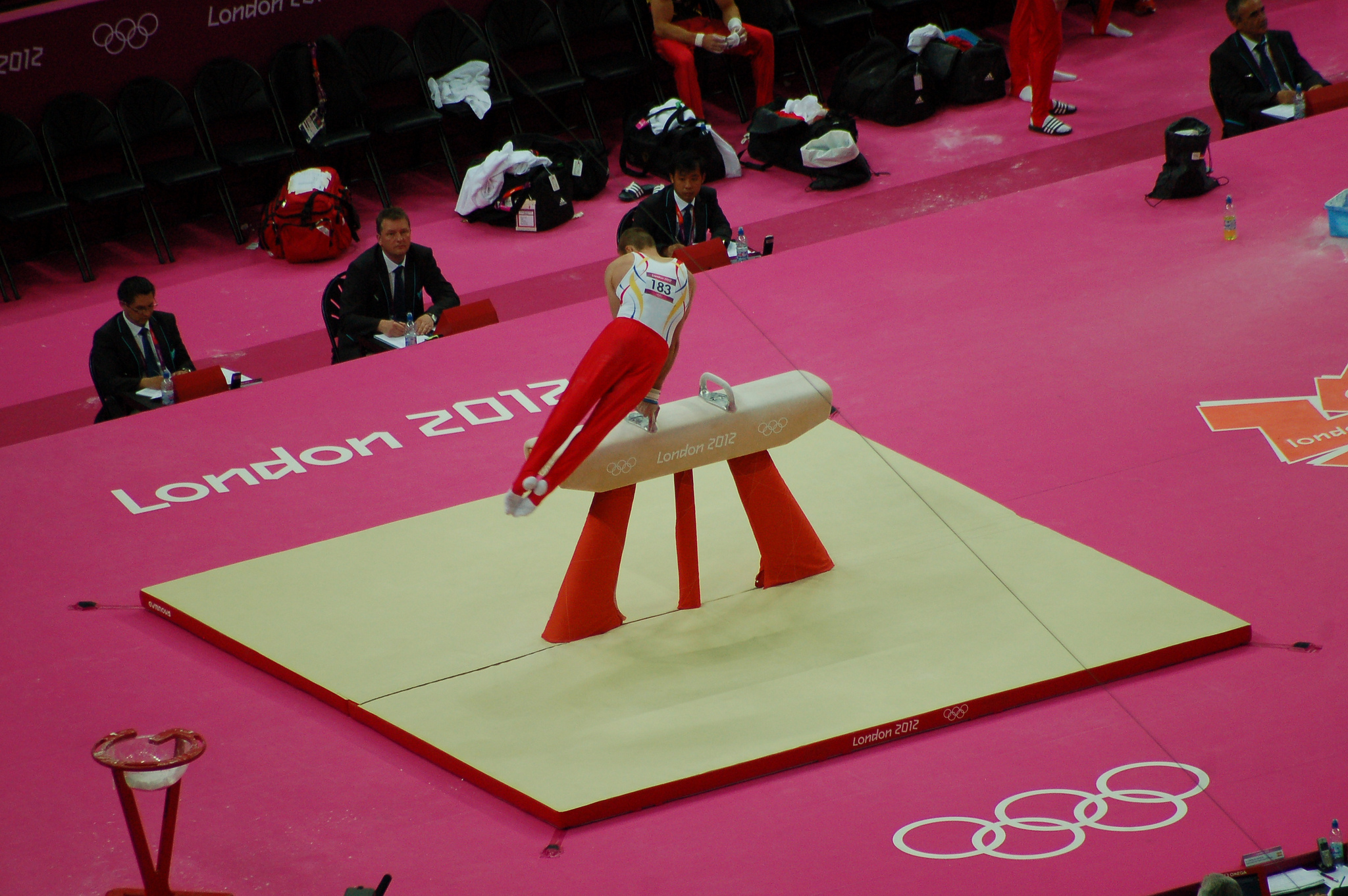 London Olympic 2012 - Artistic Gymnastics Mens' Qualifiers - o2